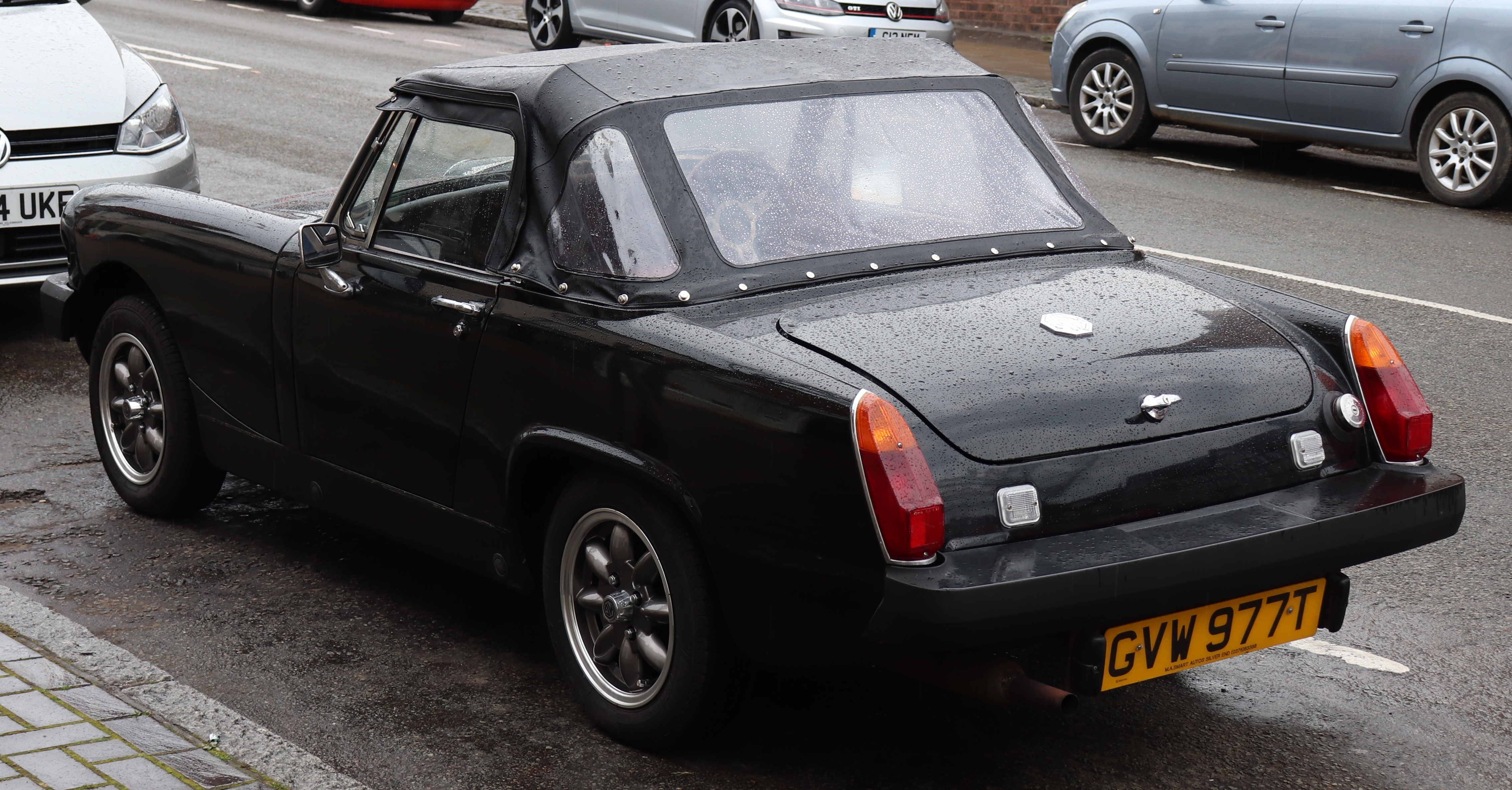 1979 MG Midget 1.5 Rear Taken in Warwick